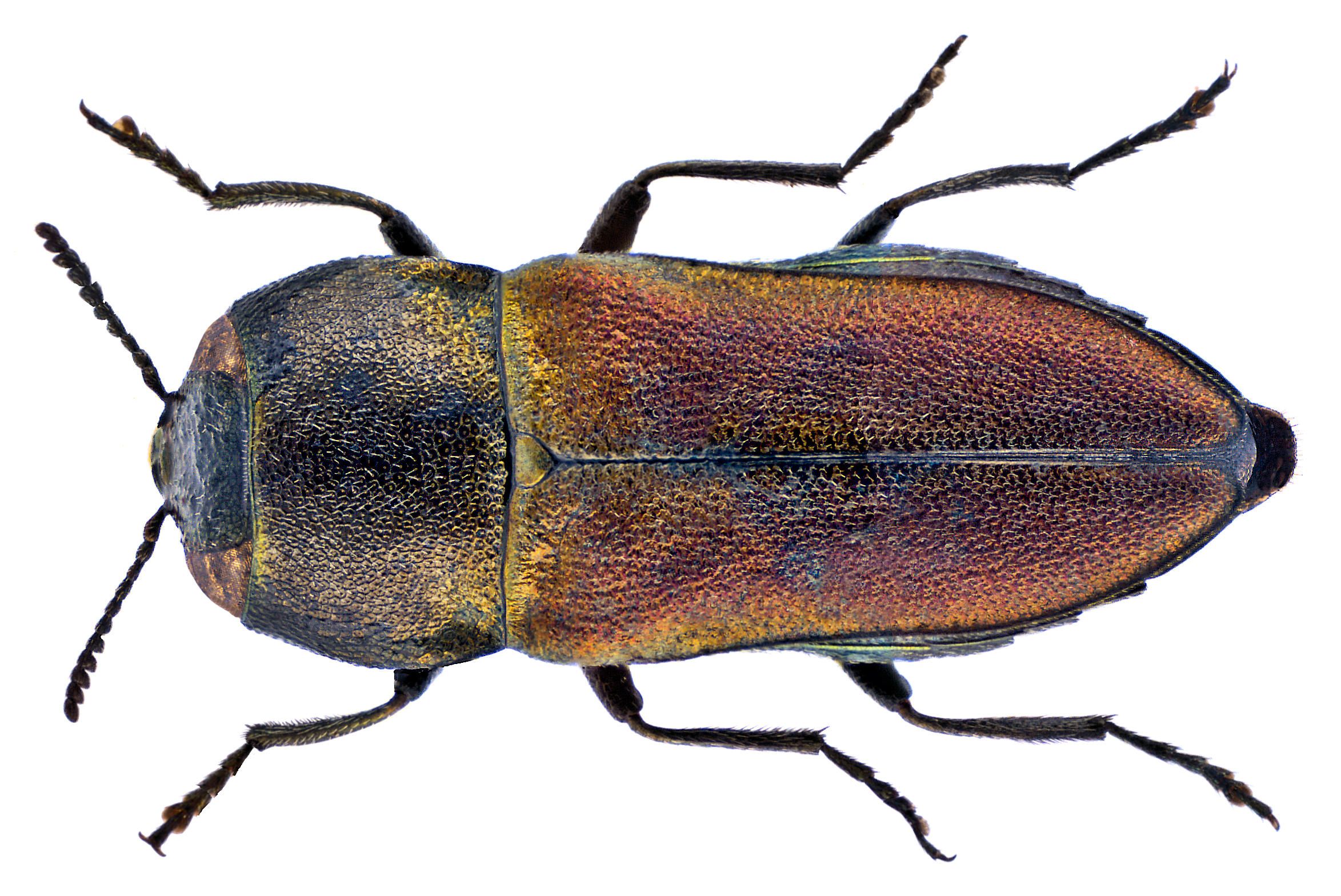 Family: Buprestidae Size: 4,7 mm (4,0-5,0 mm) Location: Cyprus, Larnaca Distr., Alaminos, environment Club Aldiana leg. U.Schmidt, 4.-14.V.2014; det. M.Niehuis, 2014 Photo: U.Schmidt, 2014